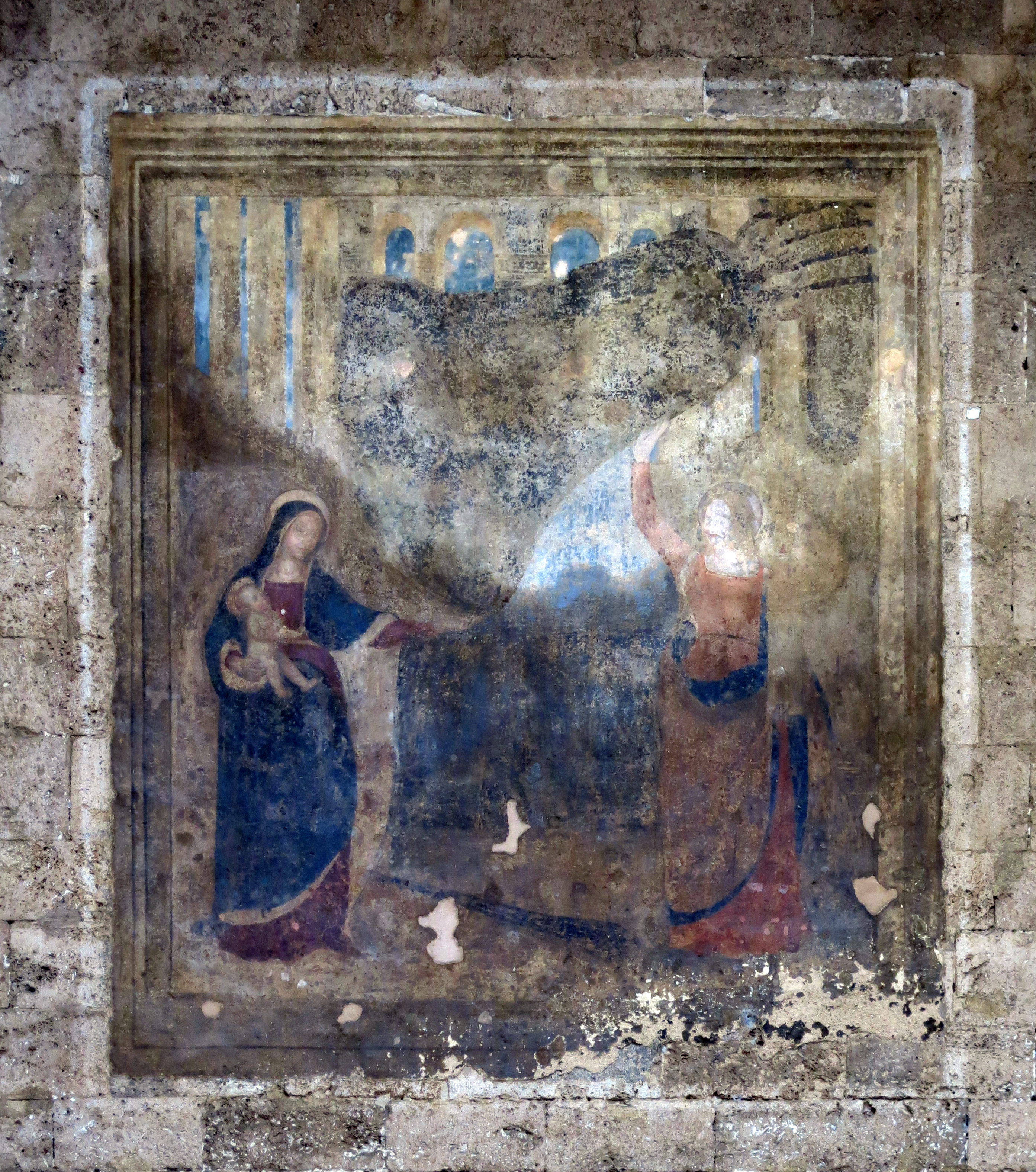 St. Mary Cathedral - Rieti, Lazio, Italy